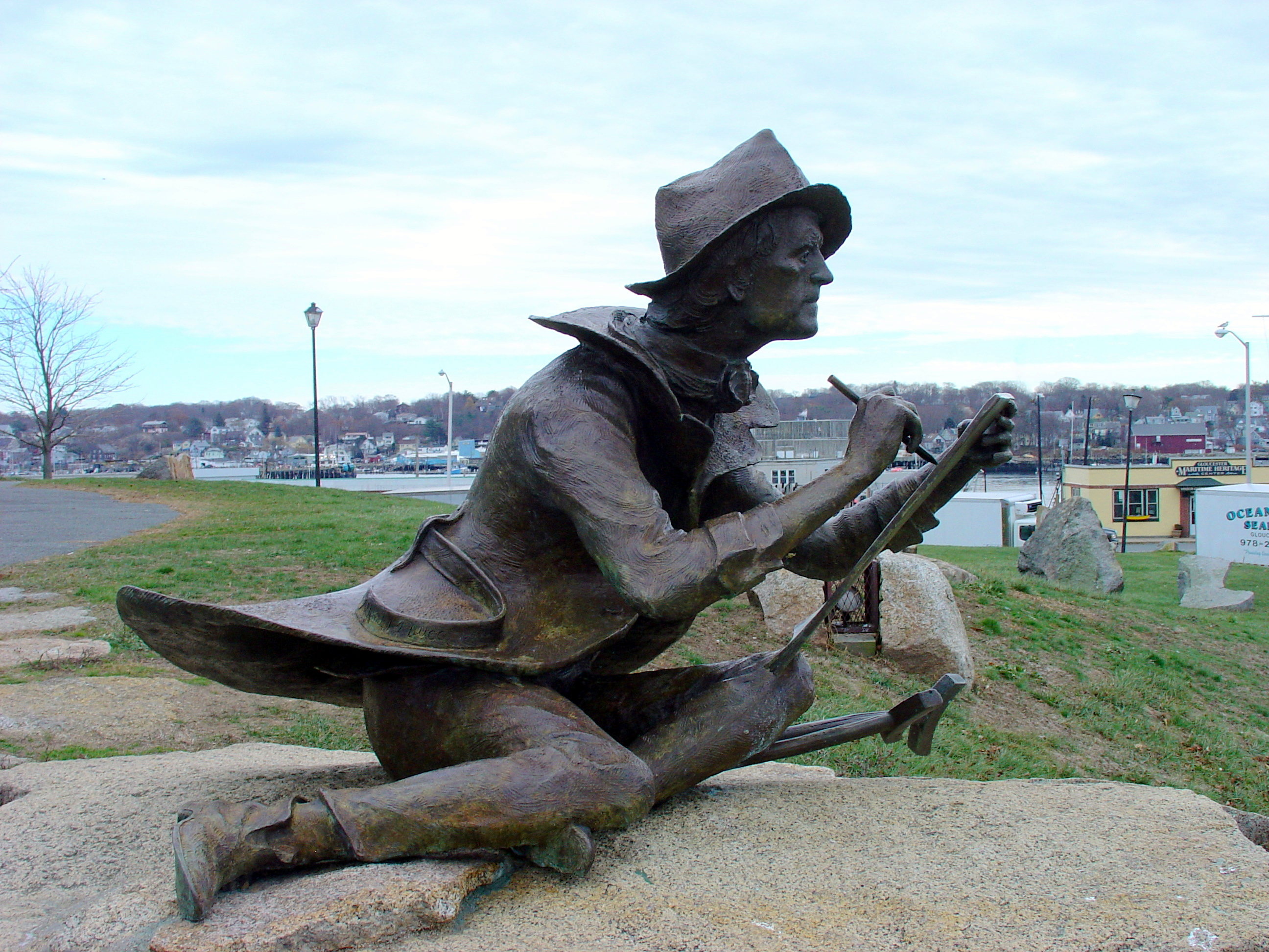 The sculpture by Alfred Duca shows Lane sitting on rocks, working intently on a picture. It's on the grounds of the house where he lived and worked in downtown Gloucester, right on the harbor.